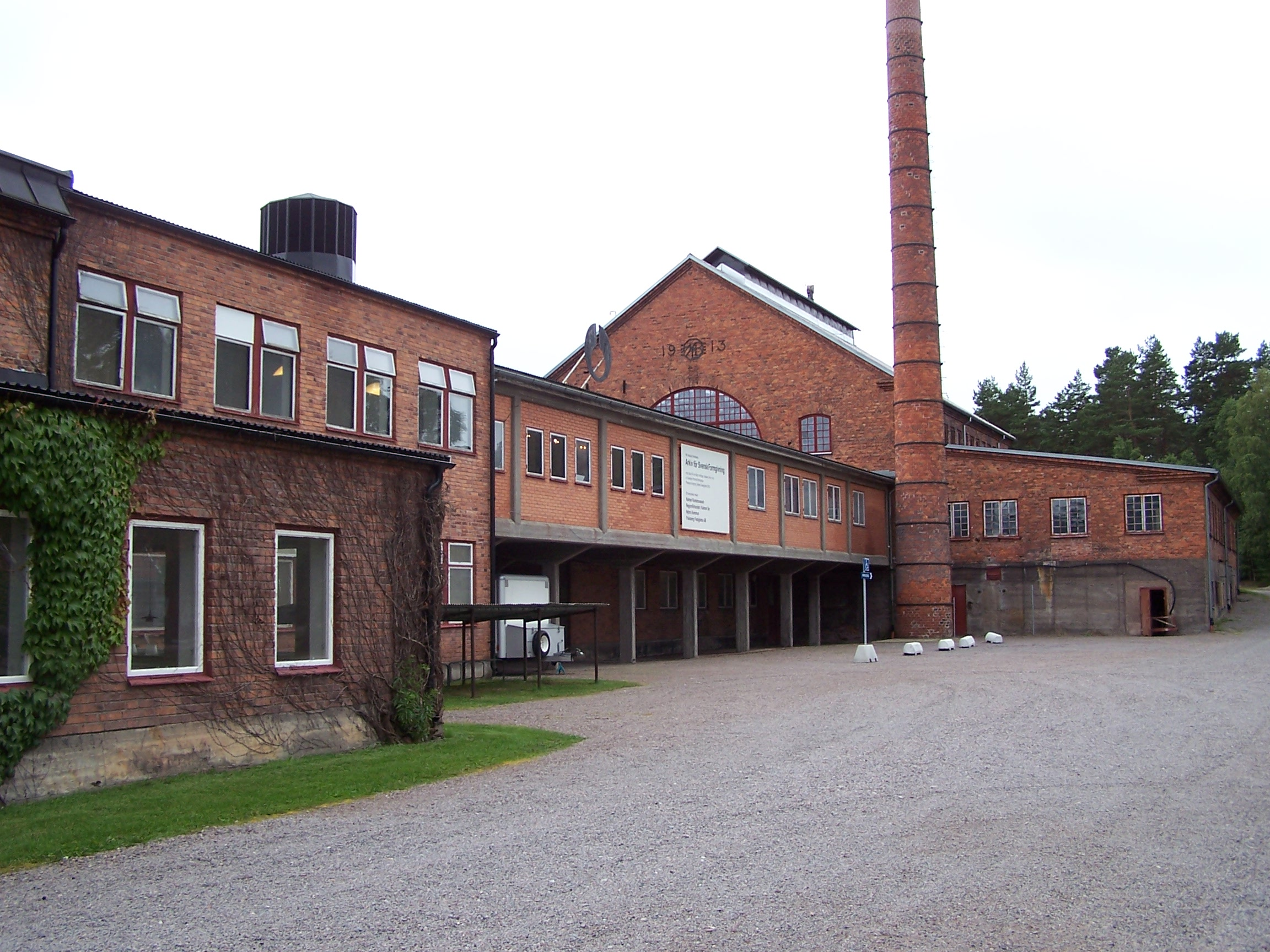 Pukeberg glassworks, Nybro.